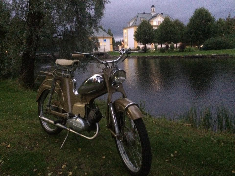 Raufossmopeden model 114. Manufactured in Norway 1958-1962.